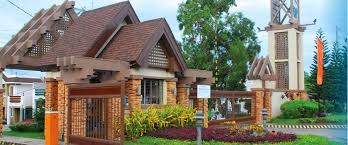 South Peak San Antonio, Spl